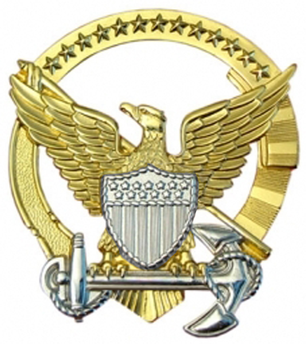 USCG Command Afloat Pin